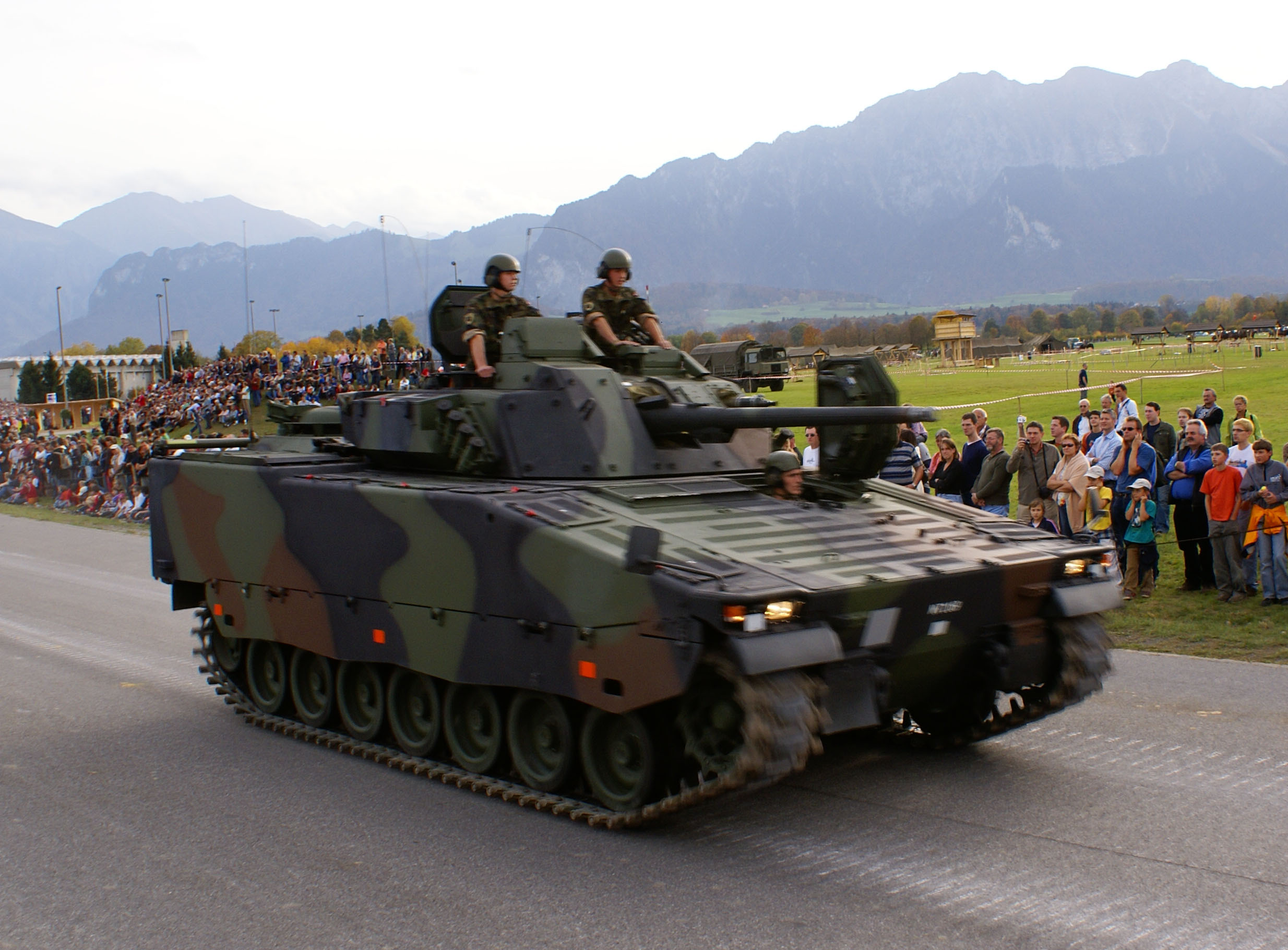 Swiss Army. APC Spz 2000 (Hägglunds Combat Vehicle 90), command variant. Participating in the "Steel Parade" of the 2006 Army Days, Thun.